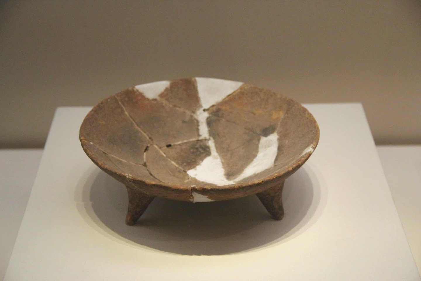 Neolithic earthenware bowl with legs, Cishan culture, Hebei, 1977. National Museum of China, Beijing Ref : Chinese Ceramics : From the Paleolitic Period to the Qing Dynasty, edited by Li Zhiyan, Virginia L. Bower, and He Li. Yale University and Foreign Langage Press 2010. Page 41.